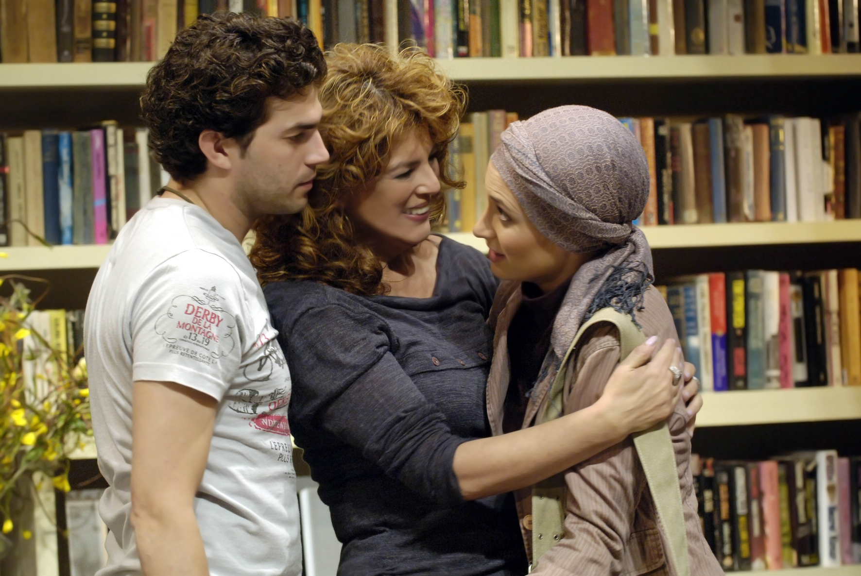 Adi Bielski, Yona Alian and Shlomi Tapiero in Beit Lessin Theater's "Alma & Ruth", written by Goren Agmon, directed by Mikha Levinson.